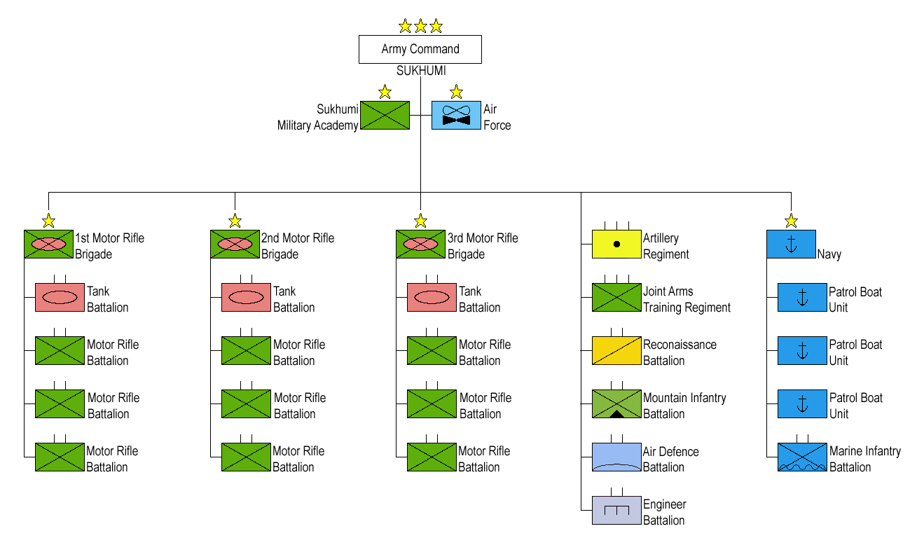 Military Abkhazia Structure as per Russian wiki article.